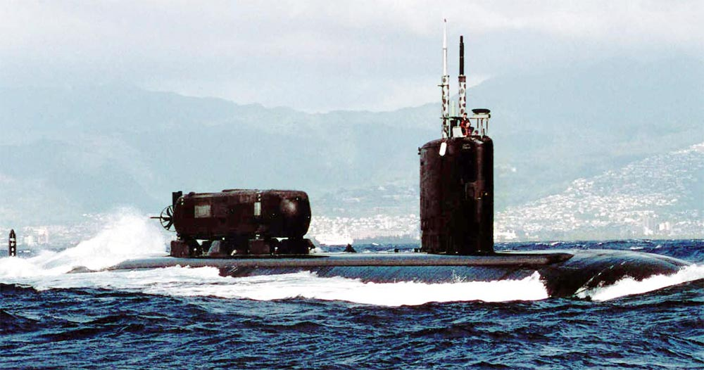 USS Charlotte (SSN-766) off the coast of Honolulu, Hawaii en:20 September, en:2002. An Advanced Seal Delivery System is attached aft of the sail.